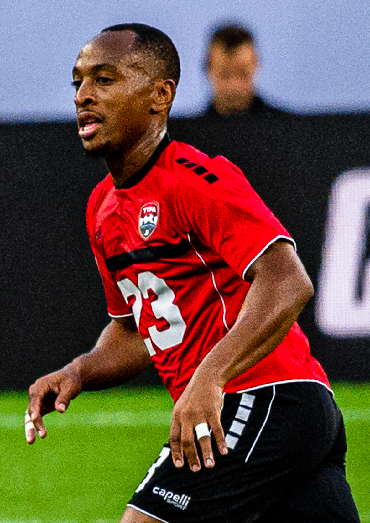 USMNT vs. Trinidad and Tobago